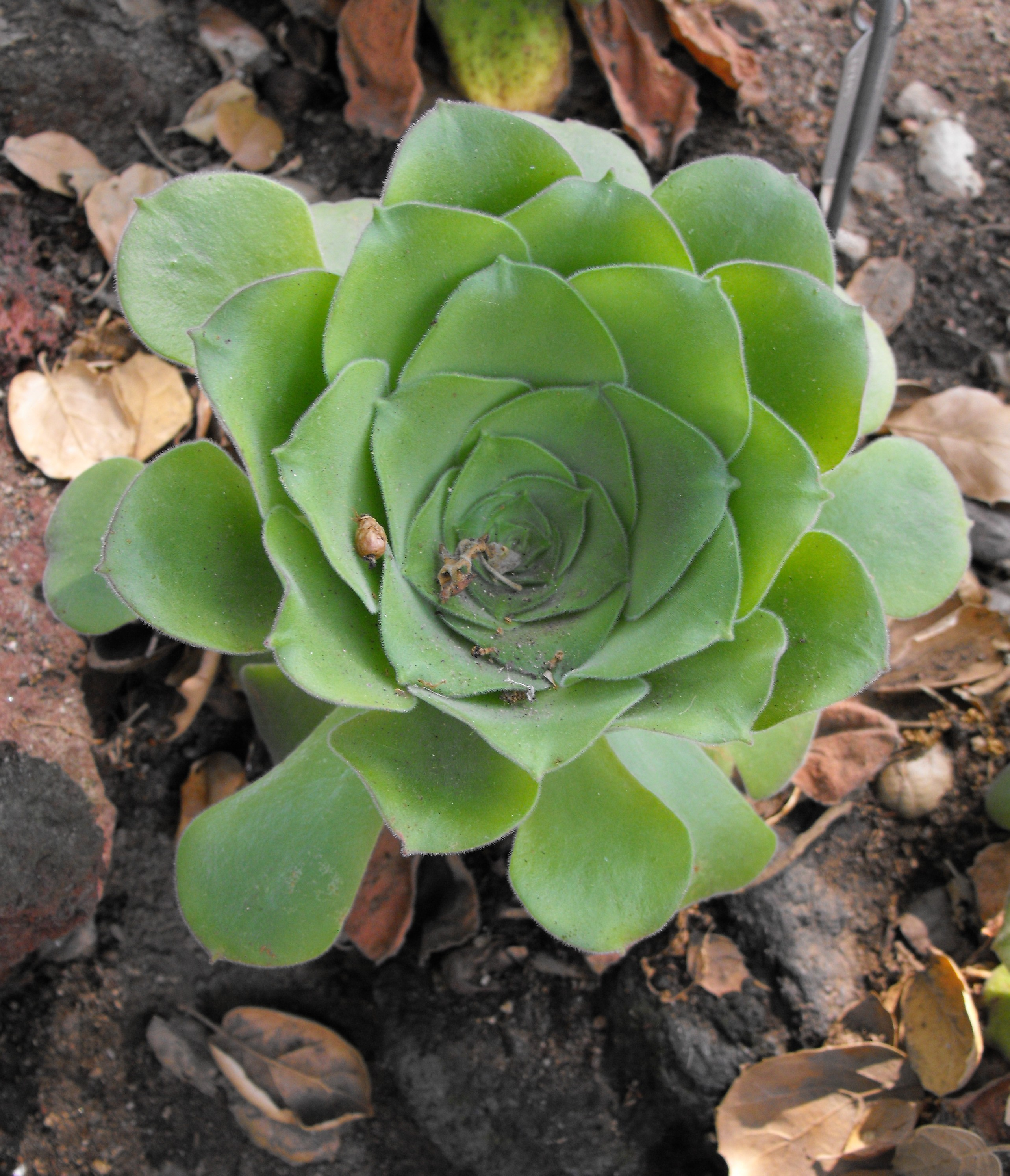 Aeonium canariense at the Huntington Library & Botanical Gardens in San Marino, California, USA. Identified by sign.